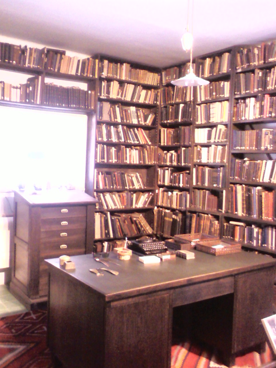 the working room of s.y agnon